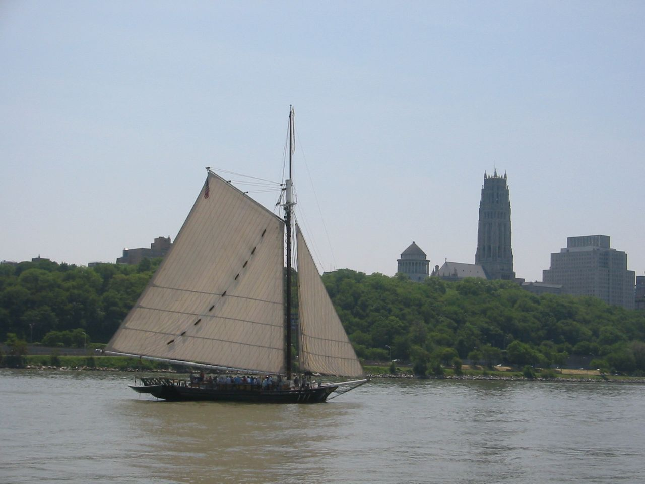 Usable with attribution and link to: Photo of the sloop Clearwater sailing south on the Hudson River, past Manhattan's Grant's Tomb and Riverside Church